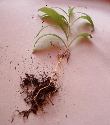 4 month old Goji plant born in October 2008